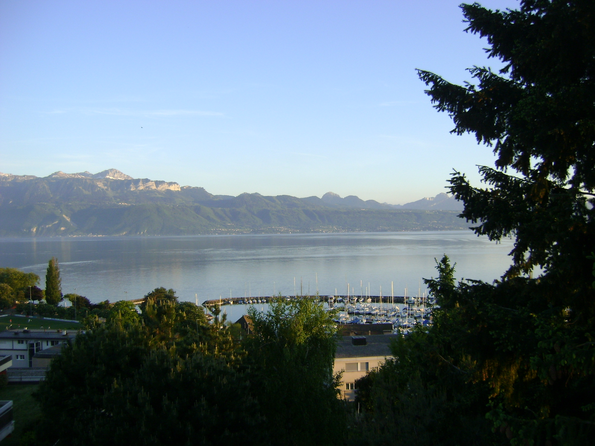 Lutry harbor on Lac Léman, Vaud, SWITZERLAND.